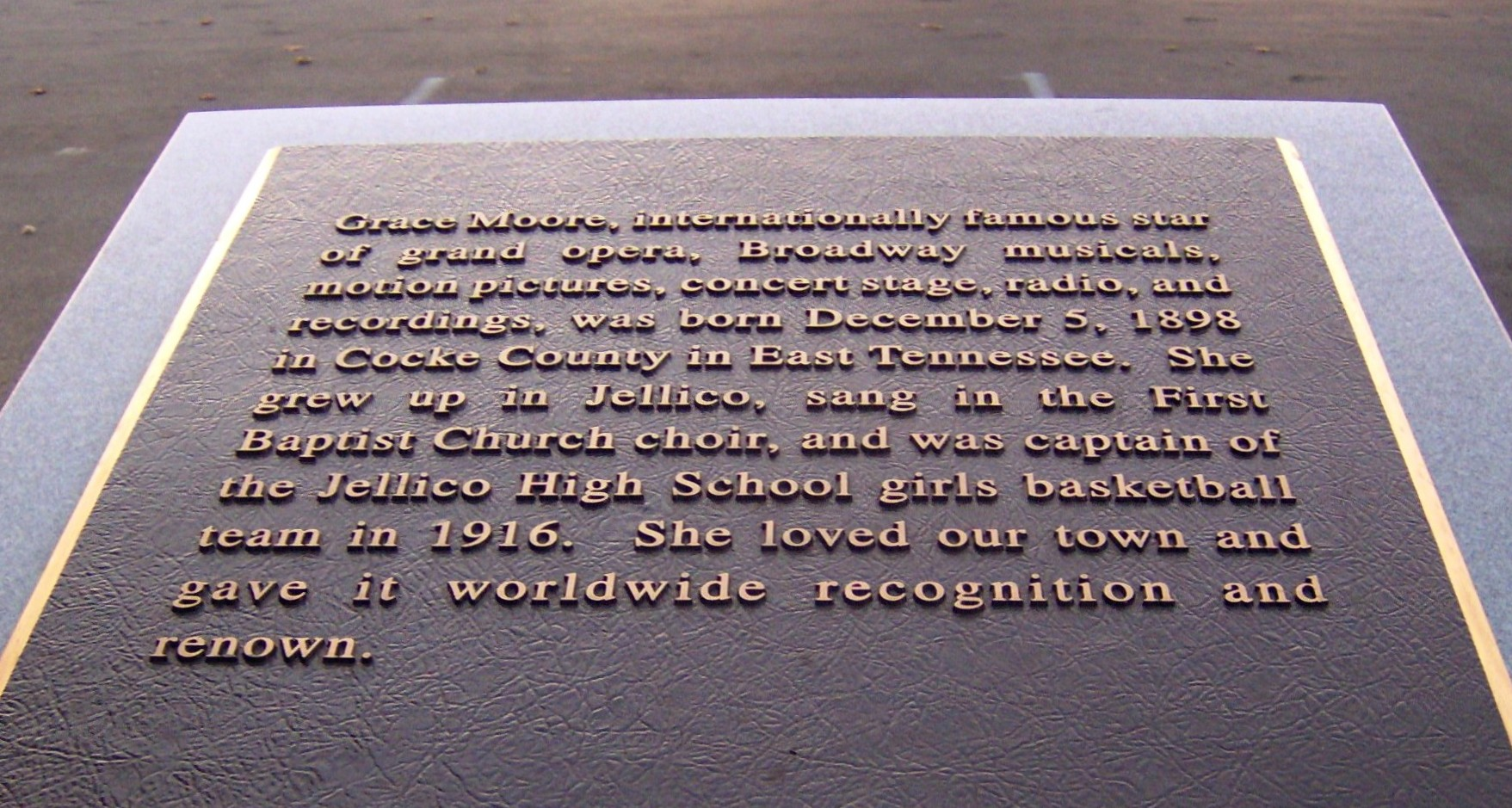 Plaque dedicated to opera singer Grace Moore (1898-1947) at Veterans Memorial Park in Jellico, Tennessee, in the southeastern United States.